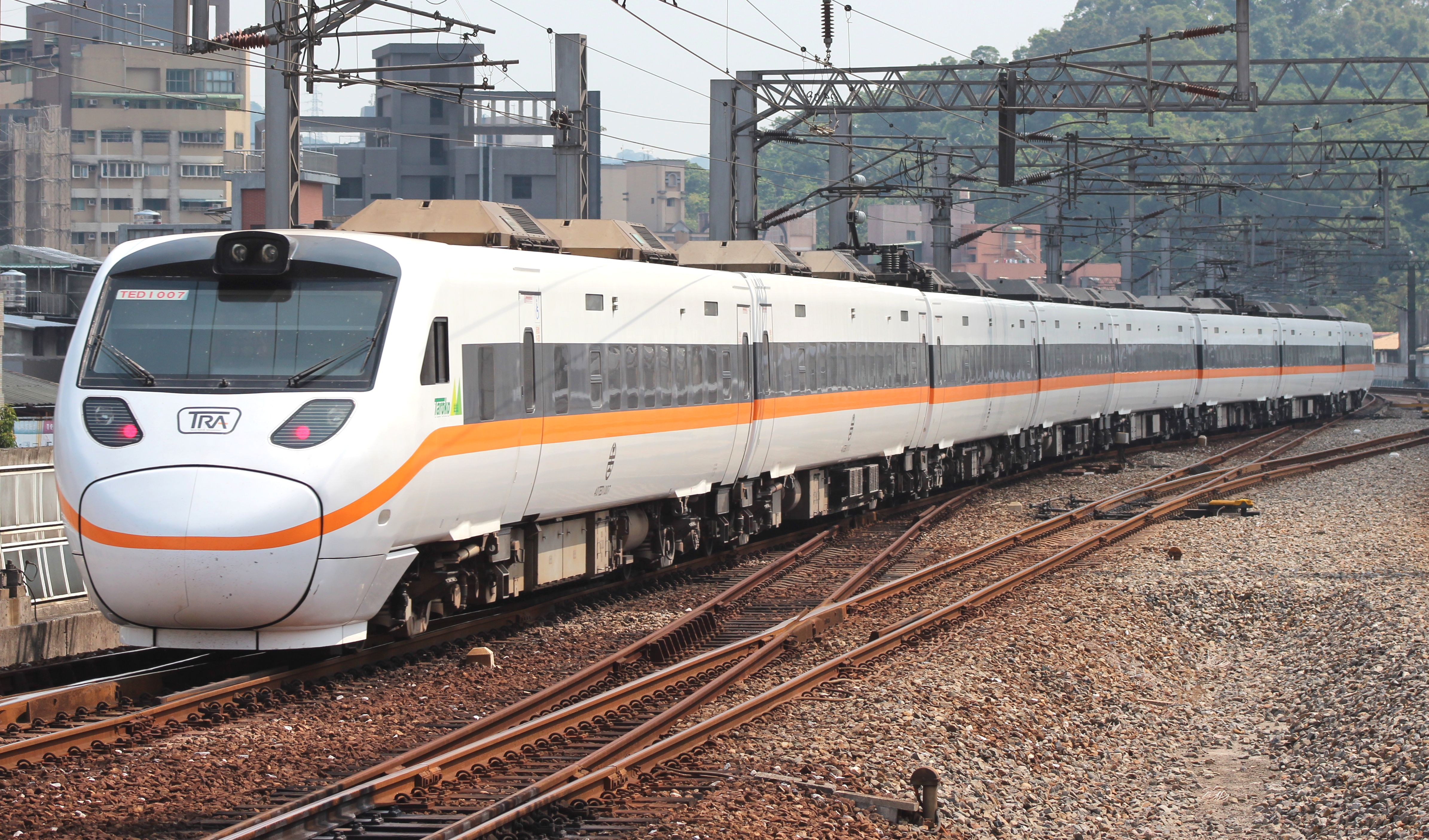 Taiwan Railway TEMU1000 series in Xizhi Station